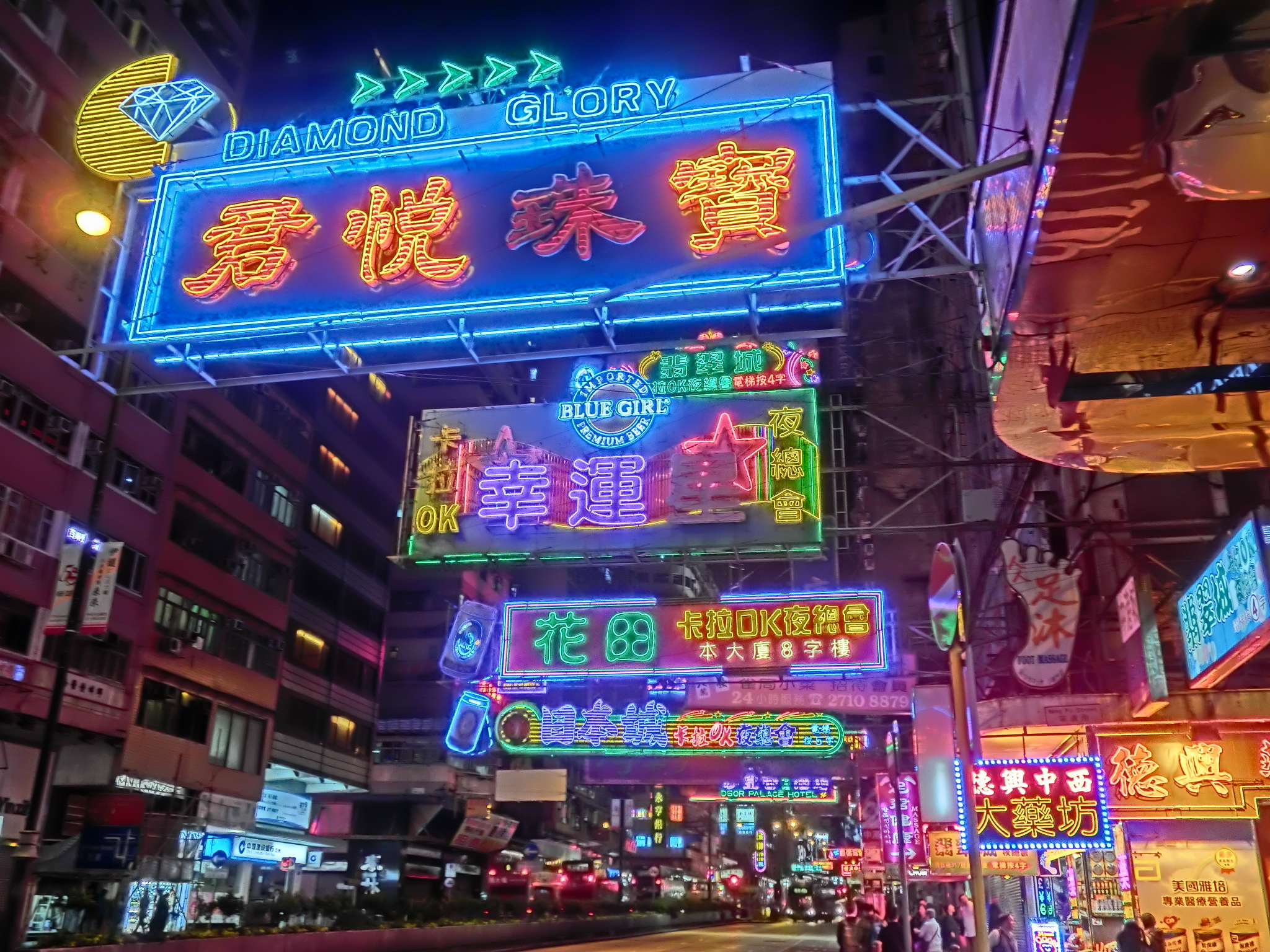 Nathan Road, Jordan, Hong Kong